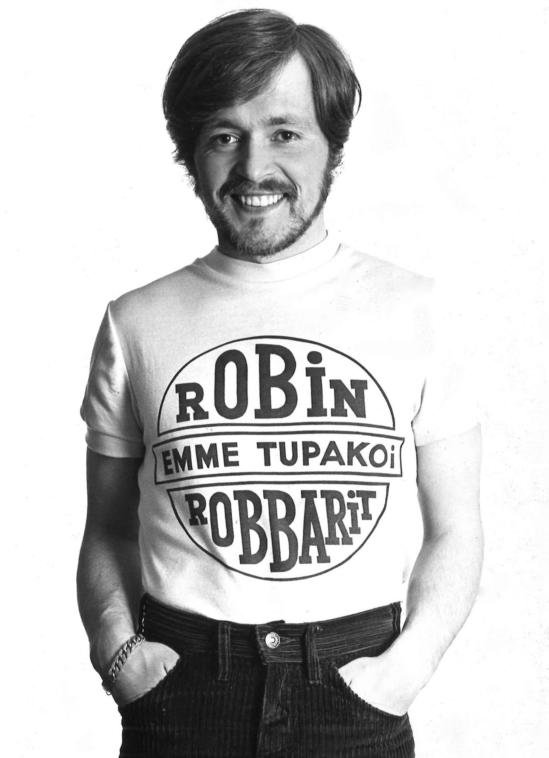 Photograph of the Finnish pop vocalist Esa-Kari Simonen alias Robin. His T-shirt states that he doesn’t smoke.